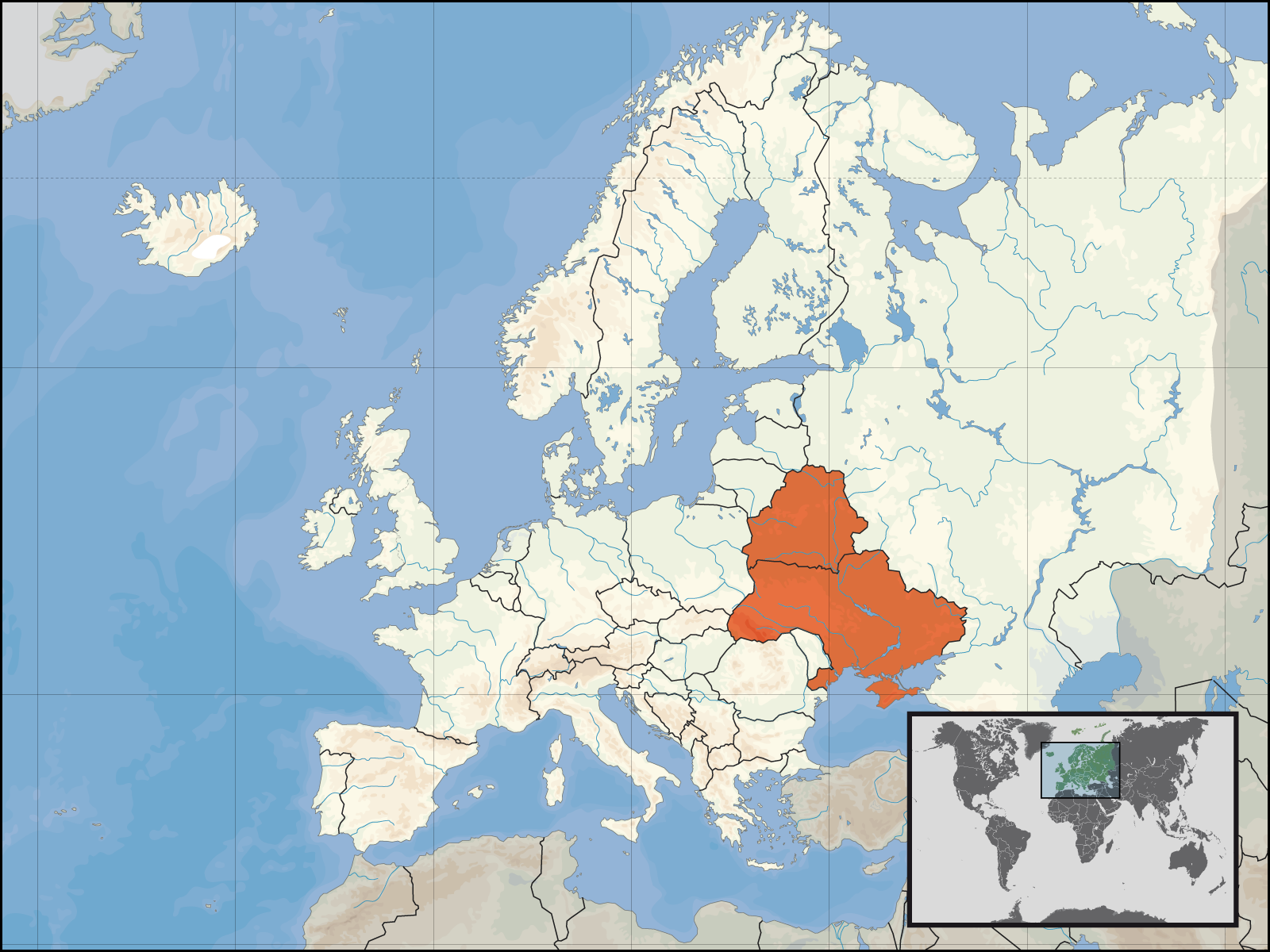 Modern Ruthenian countries (Ukraine and Belarus).